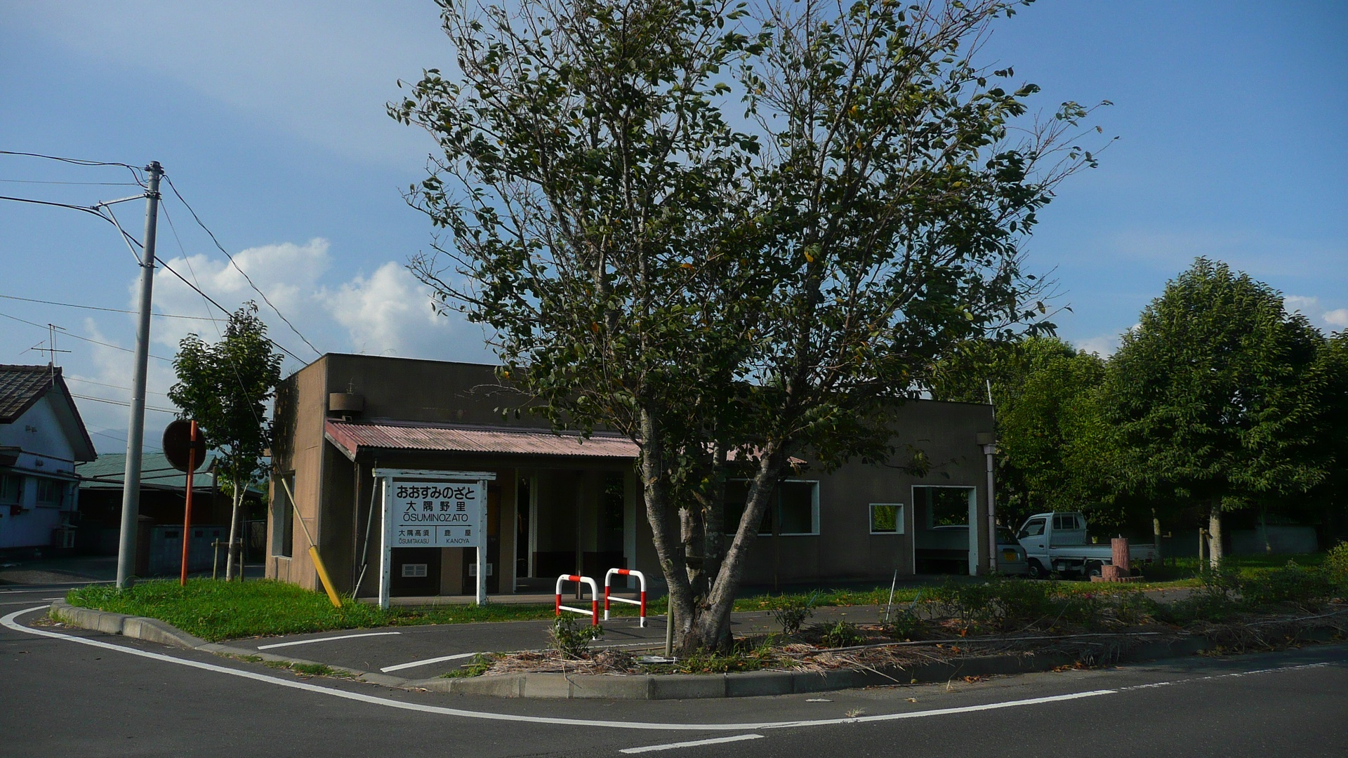 Former Osumi Nozato Station (JNR Osumi Line, 1915-1987) This station was located in Kanoya City, Kagoshima, Japan.